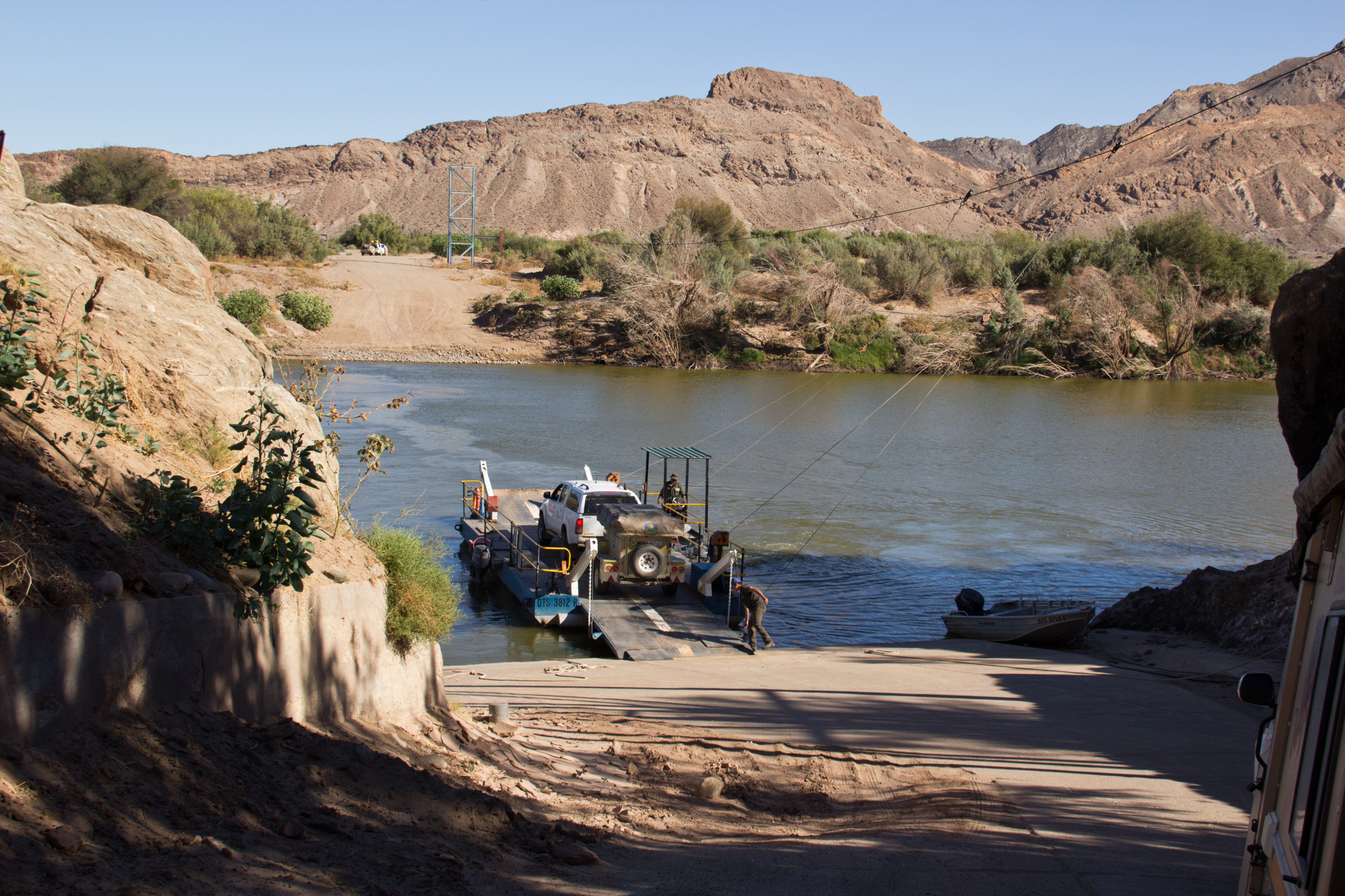 Crossing the Orange River at Sendelingsdrift